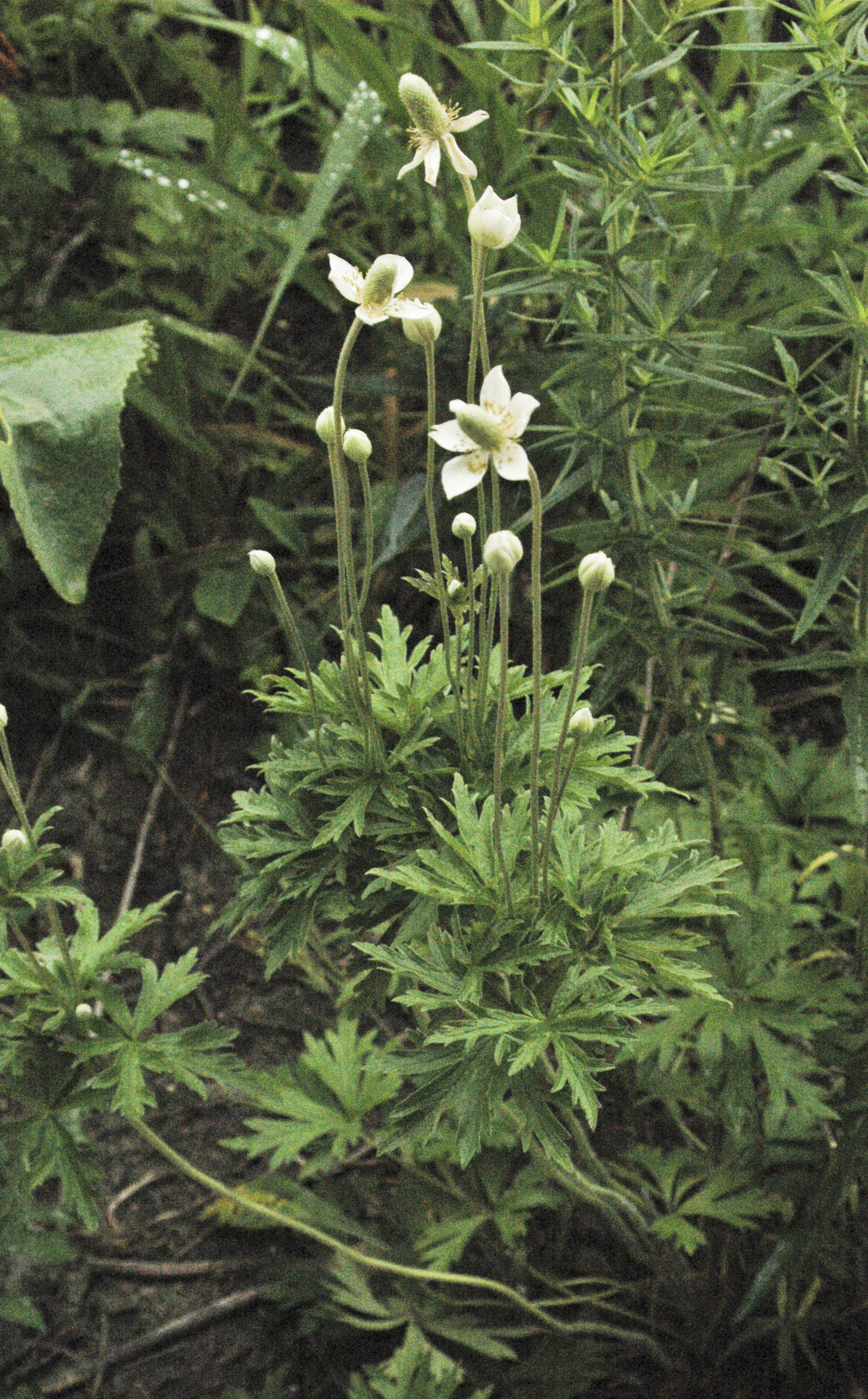 field image of Anemone cylindrica THIMBLEWEED at the James Woodworth Prairie Preserve, younger specimen just into blooming